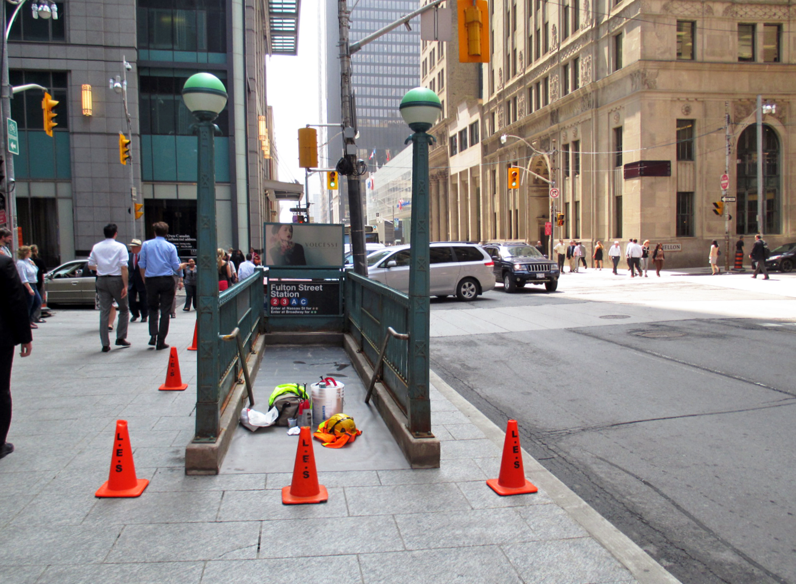 Pixels (2015 film) : Movie prop representing an entrance to the New York Subway. The prop was located at the corner of Bay Street and Adelaide St in downtown Toronto for the filming of the movie "Pixels".